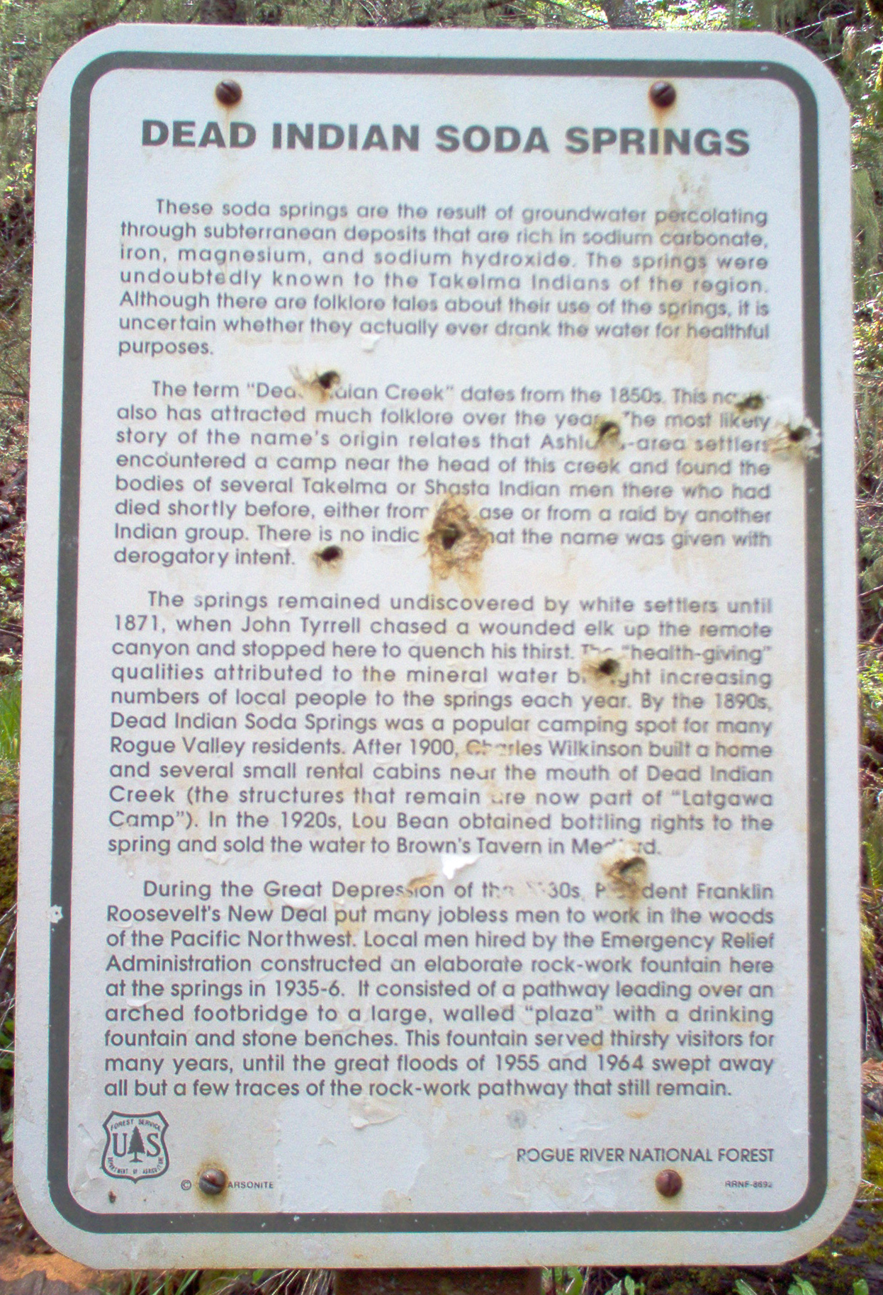 This picture was taken by me at the Dead Indian Soda Springs site.